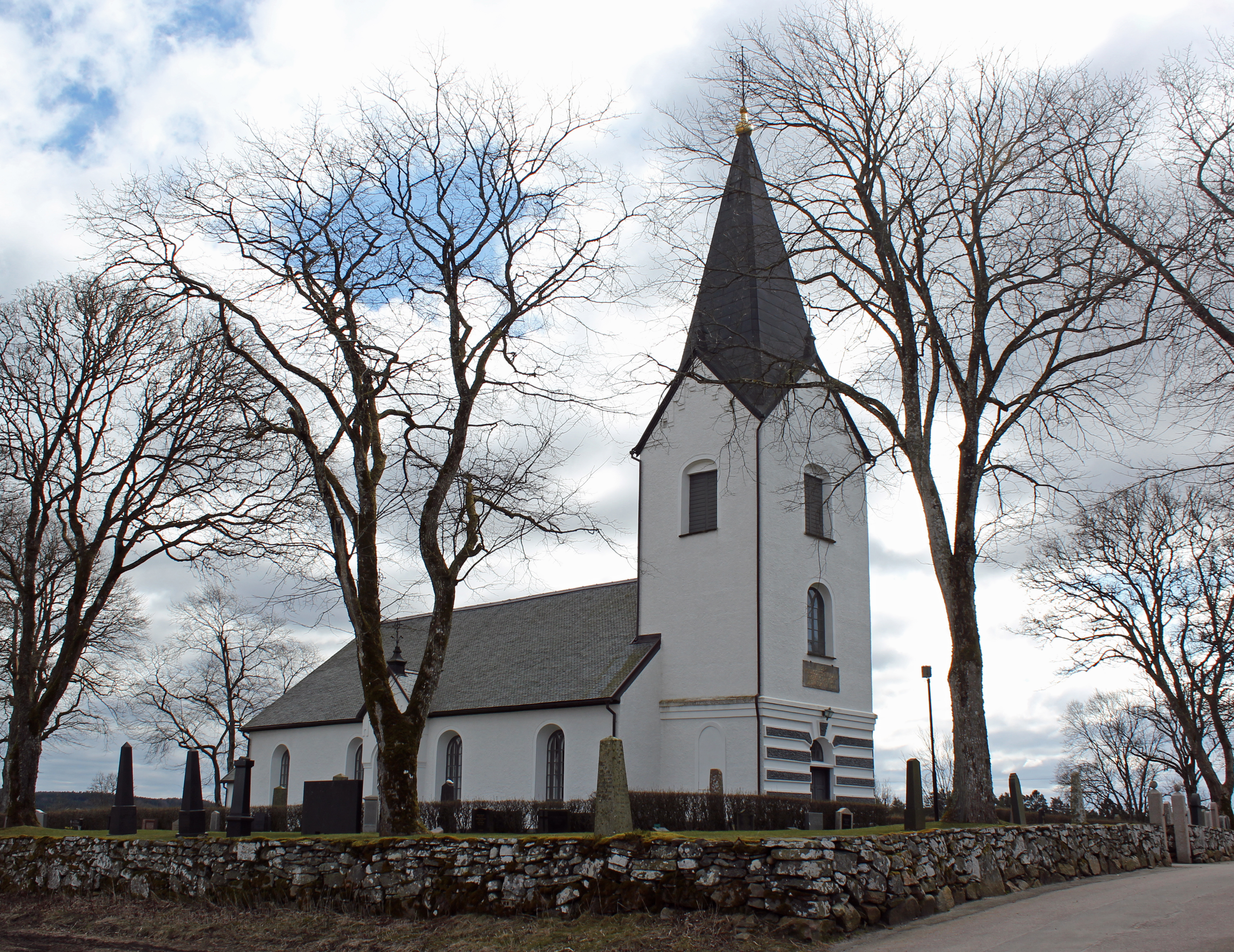 Ås kyrka (Ås church) in Halland, Sweden.